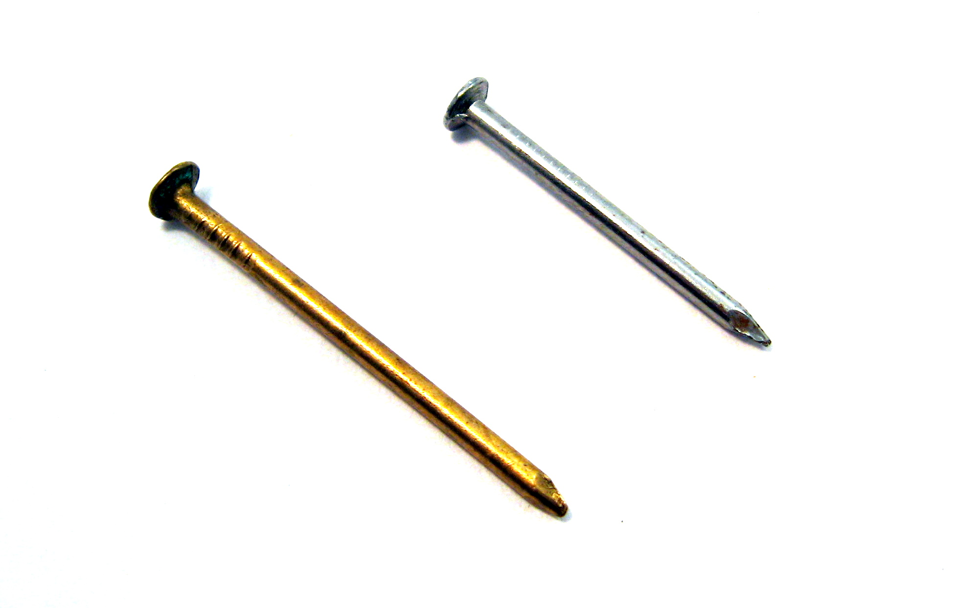 two nails